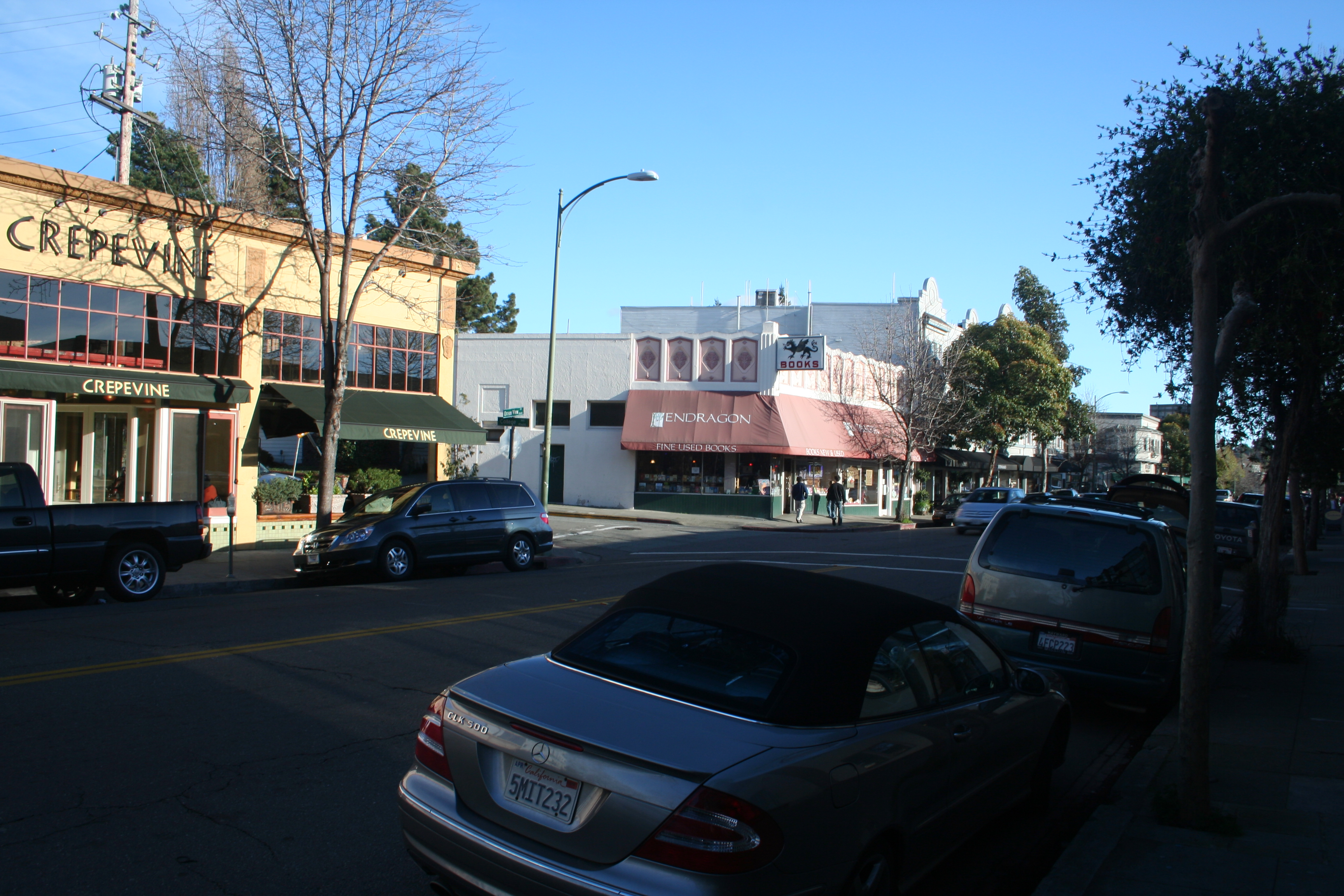 College Ave in Rockridge, Oakland, California. Shows a Crepevine restaurant and Pendragon used book shop.